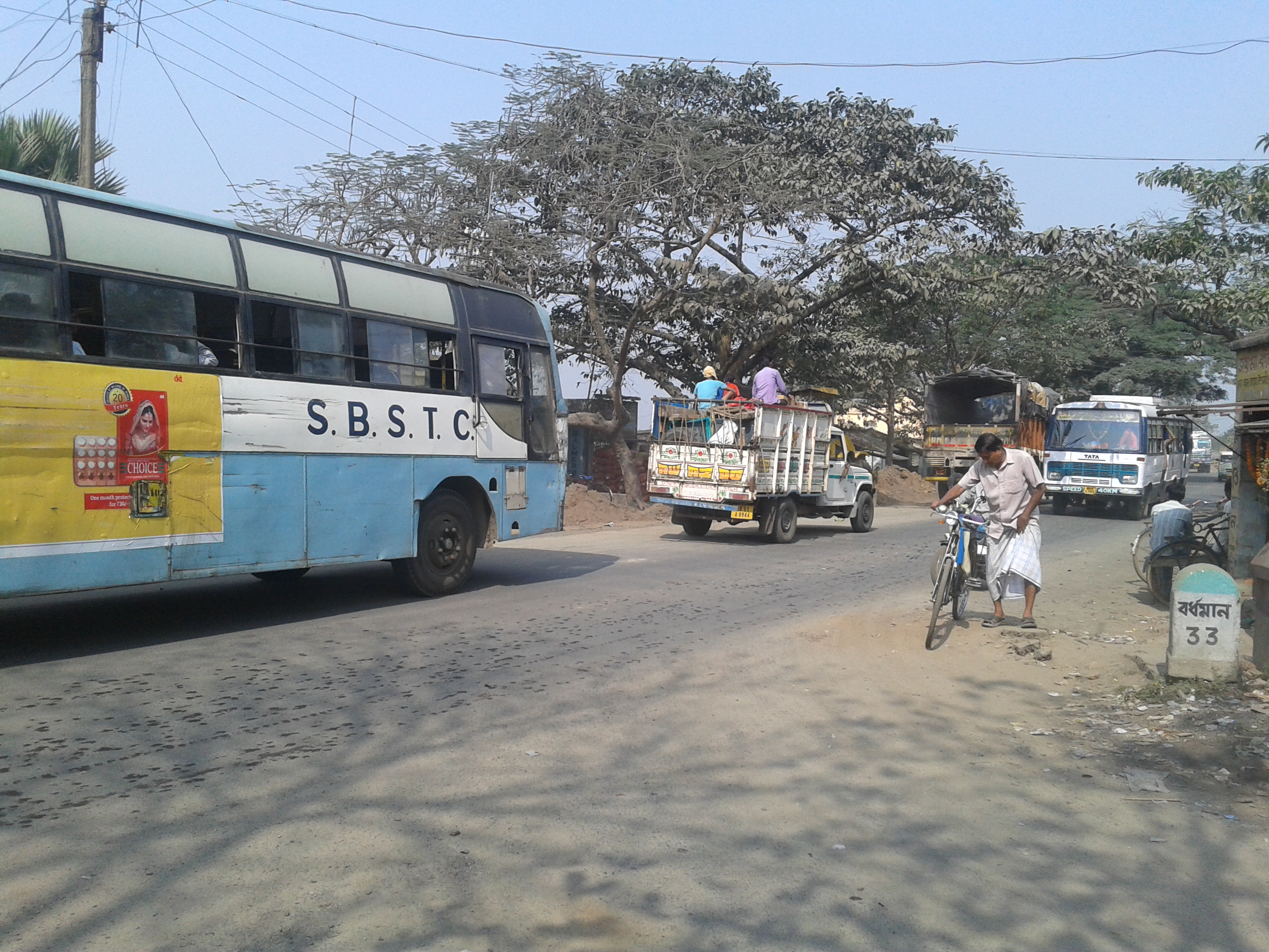 Taken from G.T Road more at Debipur.